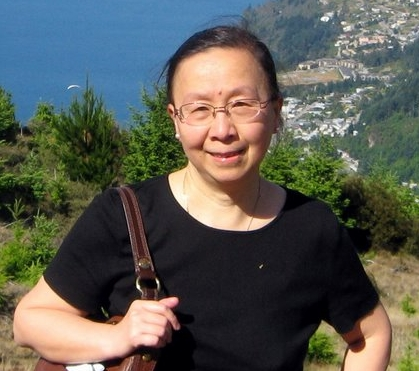 Chinese-American mathematician Sun-Yung Alice Chang in 2007.